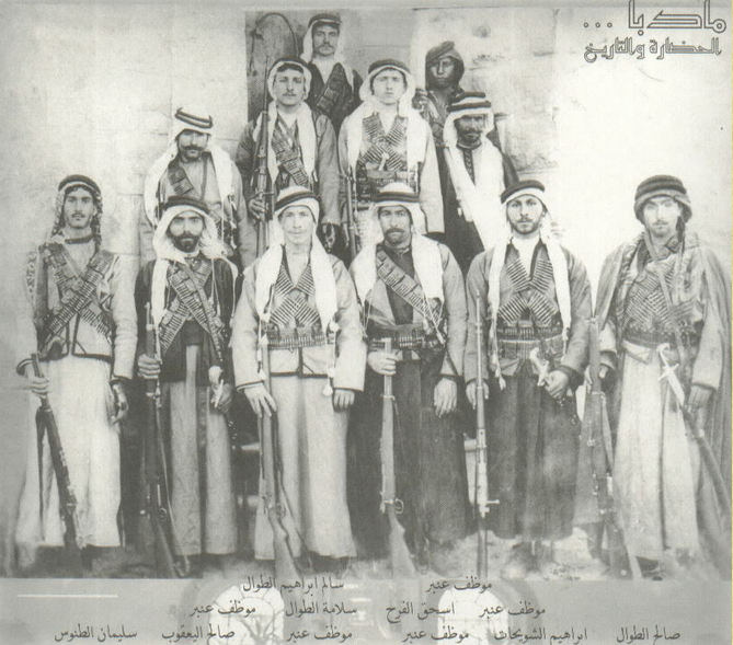 Christian Arab Tribalists from City of Madaba